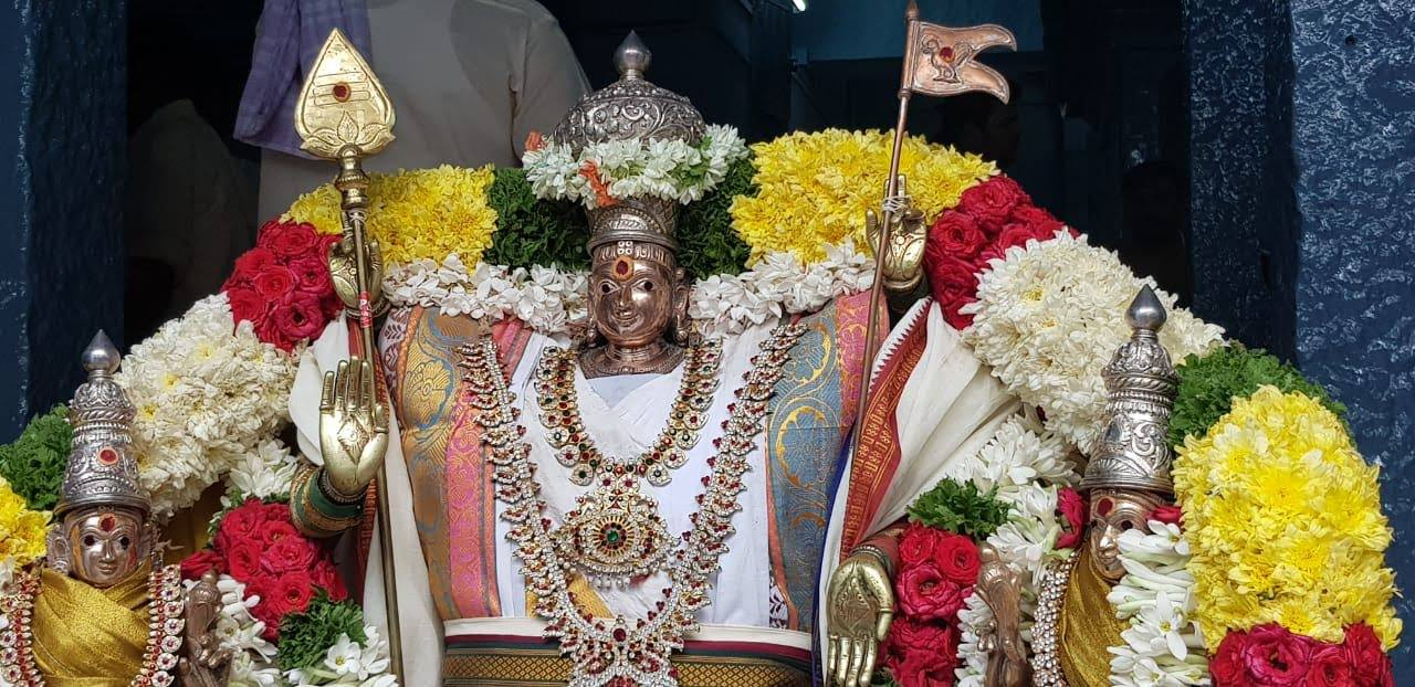 Kuppam Sri Subrahmanya Swamy sametha Vallidevasena Amavaru